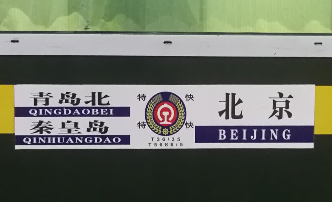 T35 36 infoboard